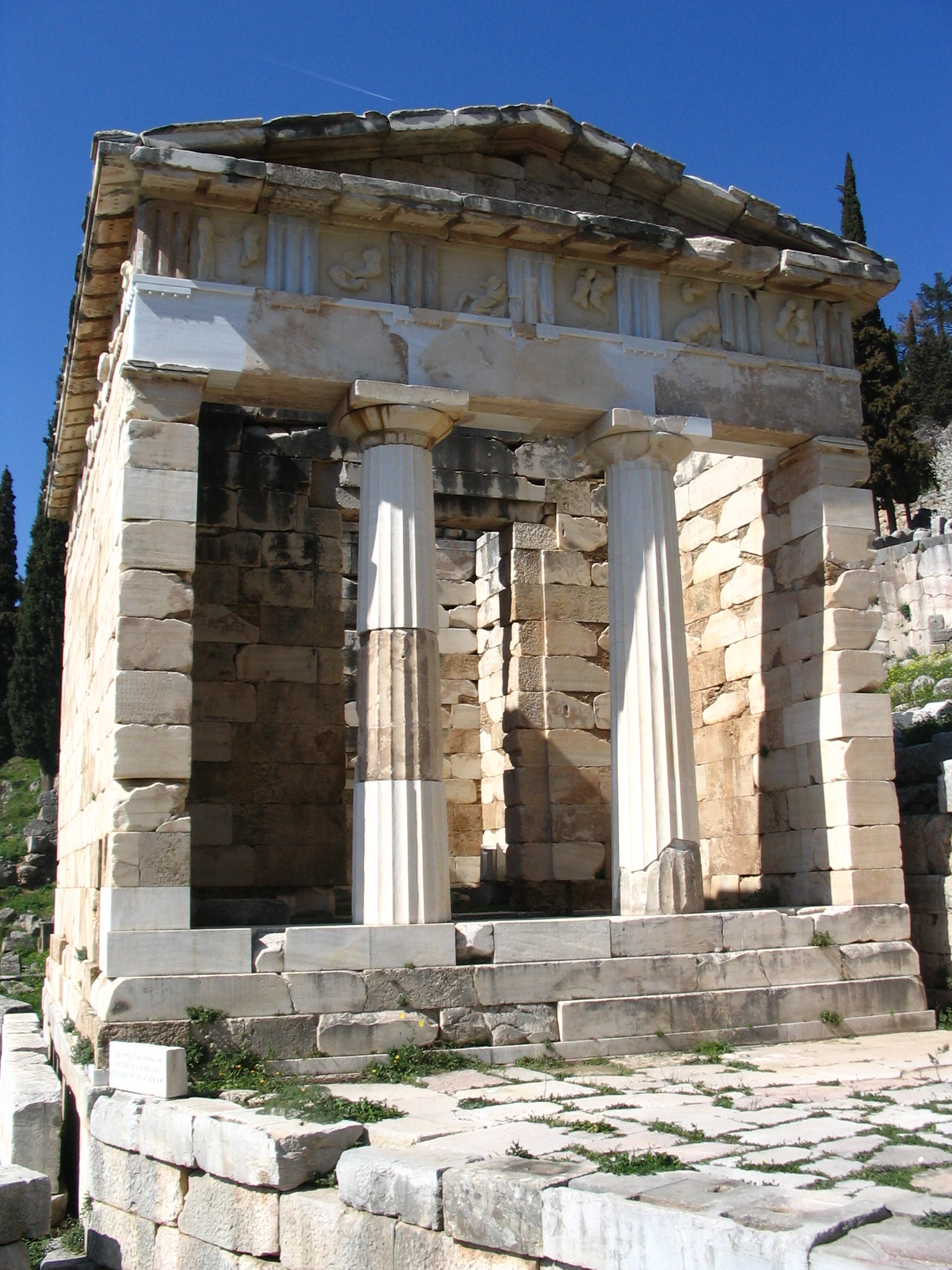 The Treasury of the Athenians at the Sanctuary of Delphi, Greece. Like many other cities, Athens built a treasury along the sacred path that winds its way up toward the Temple of Apollo, home of the famous Delphic Oracle. The treasury would have housed the many lavish gifts devoted to Apollo by the city in return for the god's oracular advice. The present treasury is partly reconstructed, and the white pieces (including most of the left-hand column) are not original.